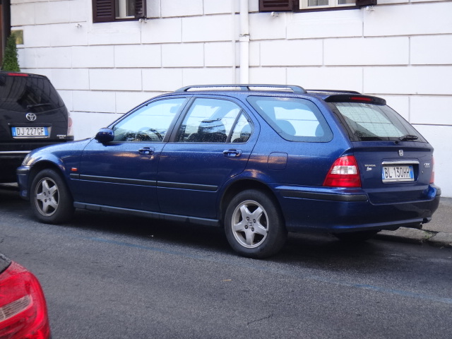 Only saw half a dozen of these and before this one, I had never actually seen one before in real life! They were never sold in Australia. A Europe and UK only model?